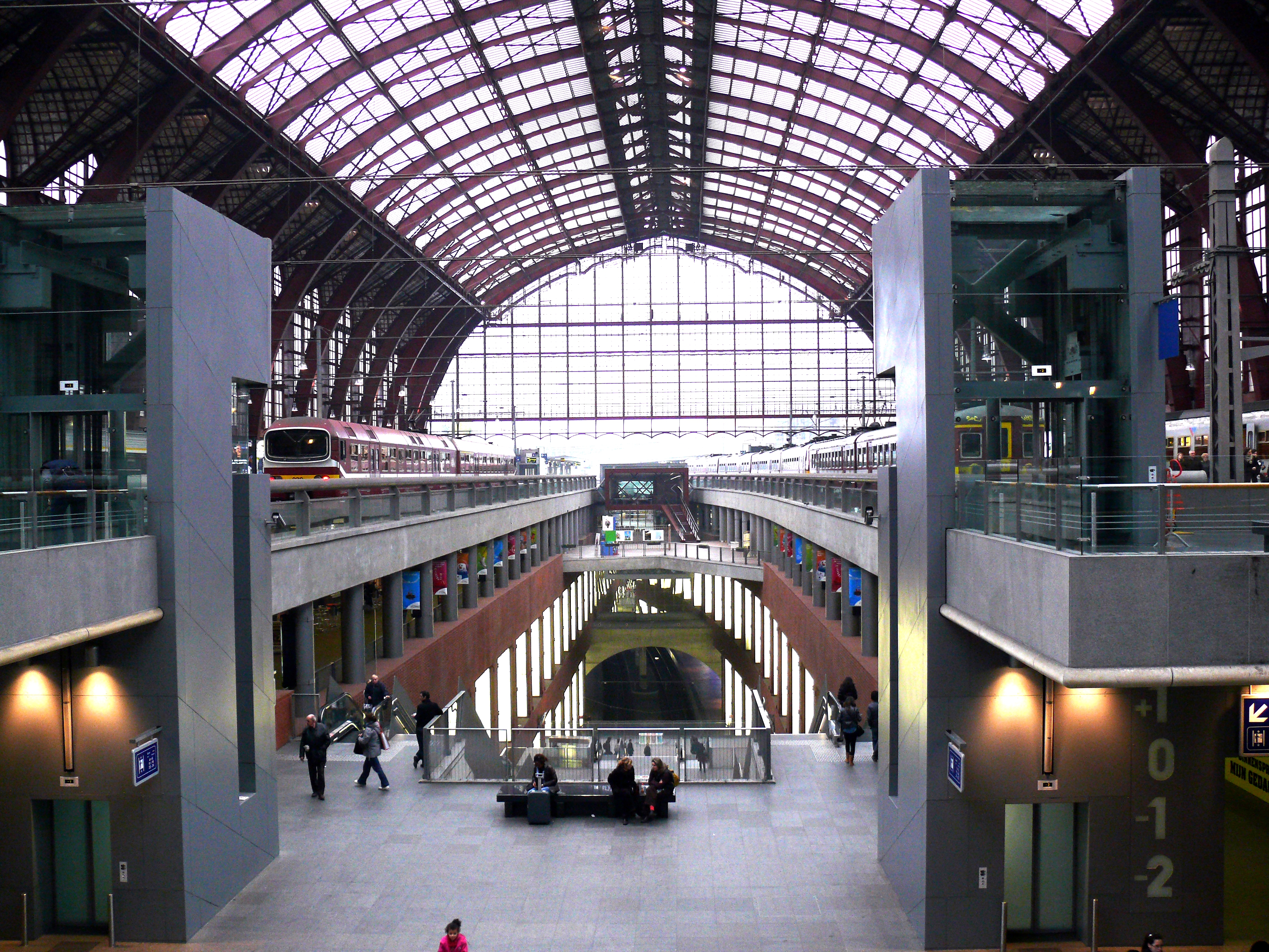 Antwerp Central Station